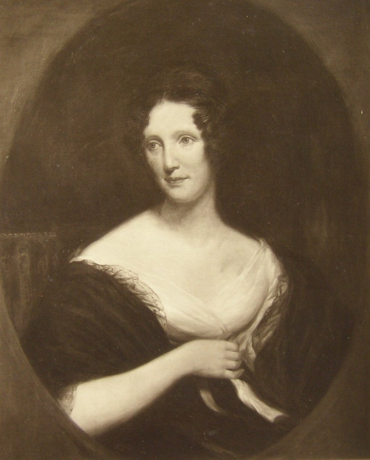 Portrait of Anne Marsh-Caldwell (1791–1874), English novelist